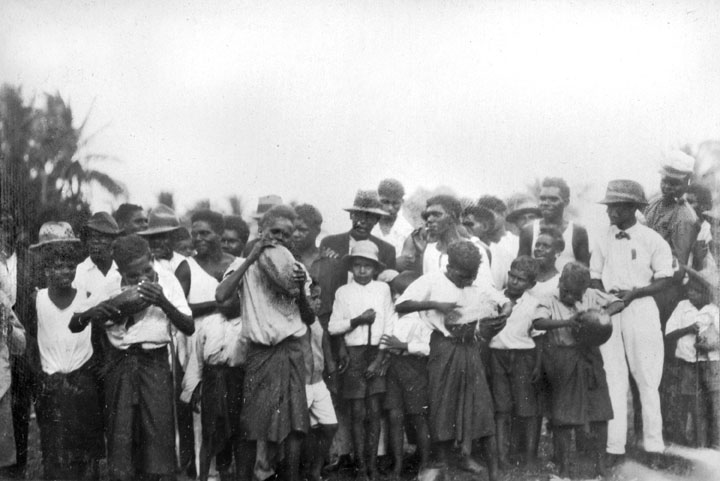 Residents of Yarrabah.